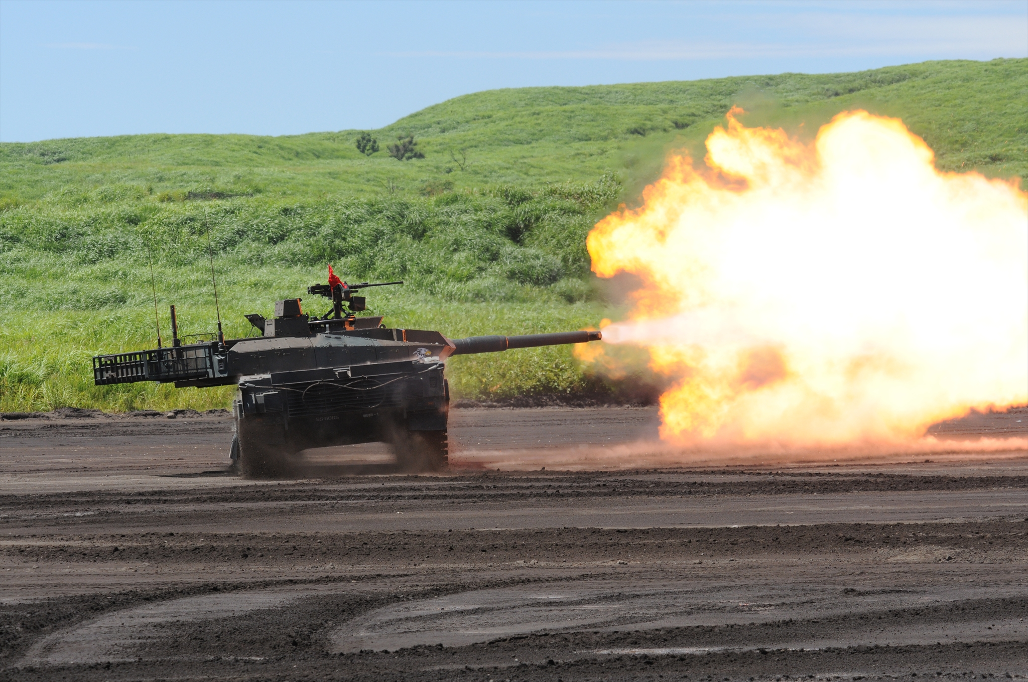 Title PHOTO-21-2 (総合火力演習)_R.JPG Album 富士総合火力演習・そうかえん 前段演習・戦車火力（１０式戦車・スラローム射撃） ja:10式戦車